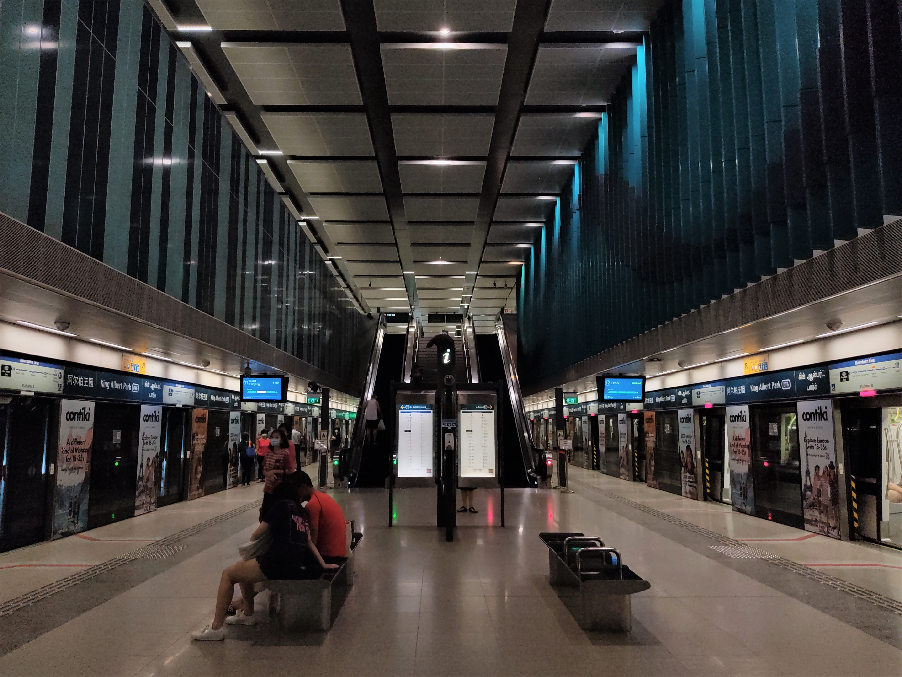 King Albert Park MRT Platforms